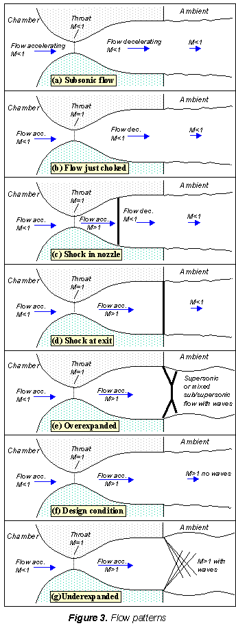 This picture describes the flow patterns through a nozzle and explains the choked flow.